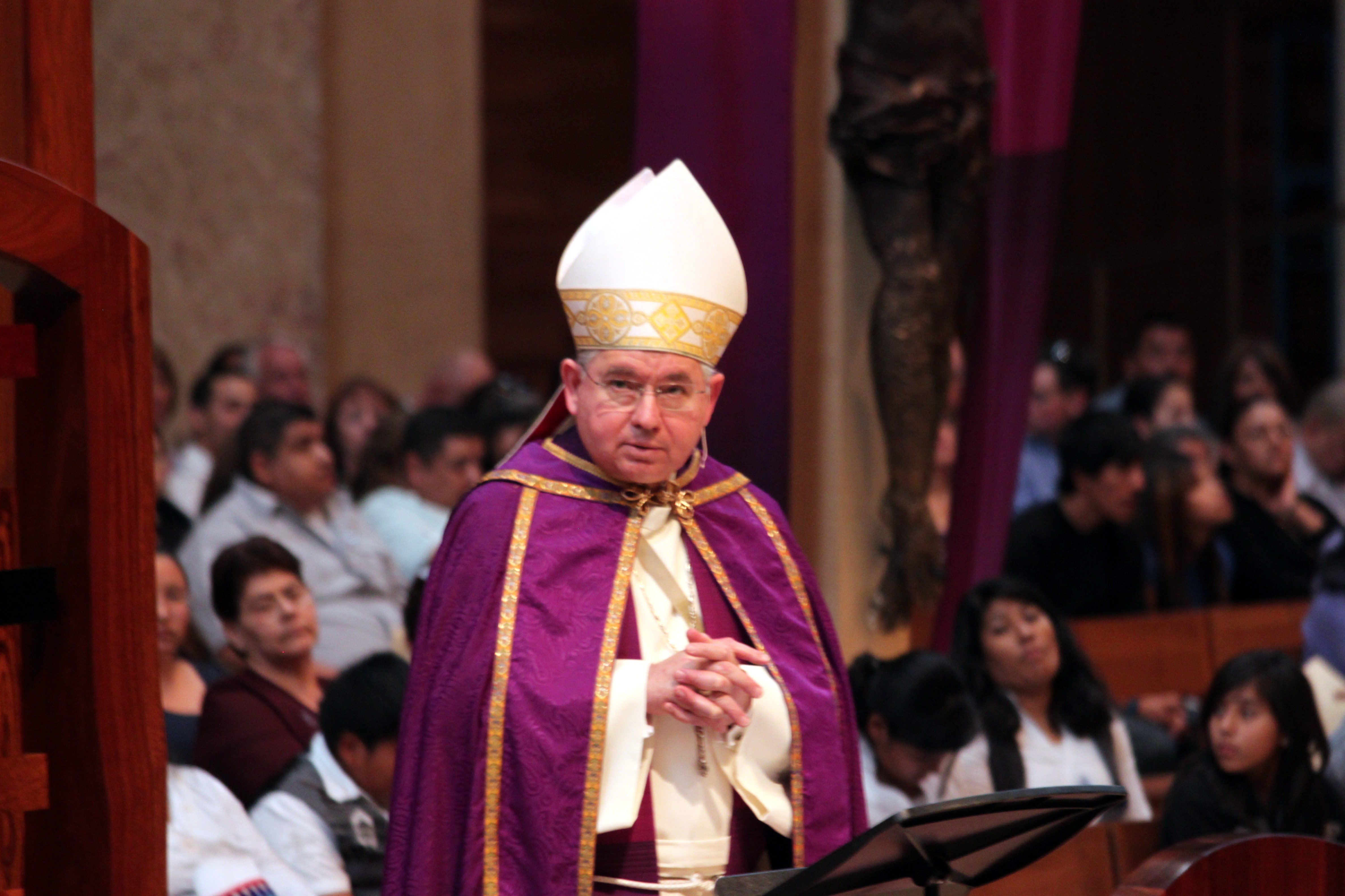 Los Angeles Cathedral